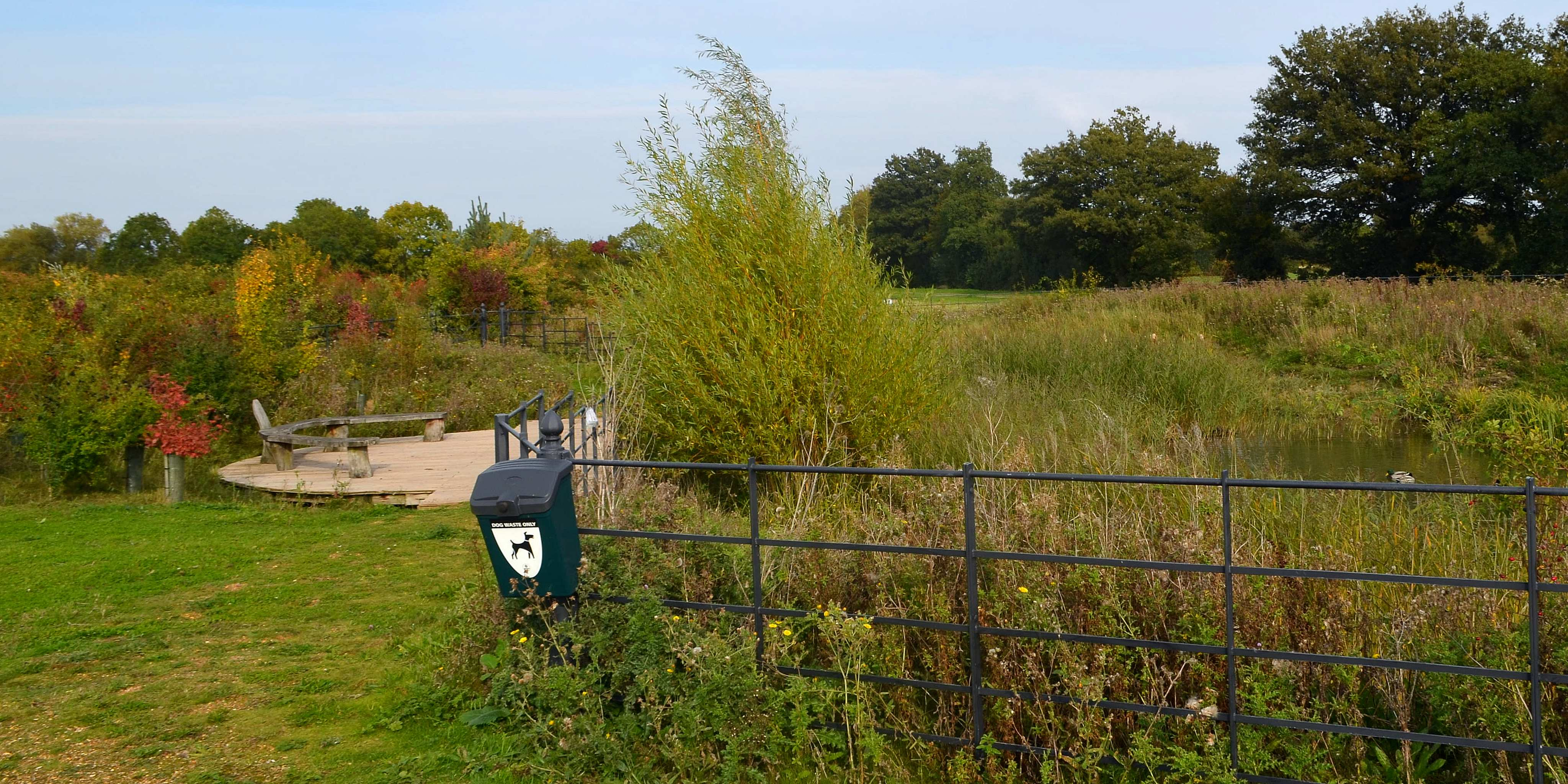 Coton Countryside Reserve pond in September 2017.